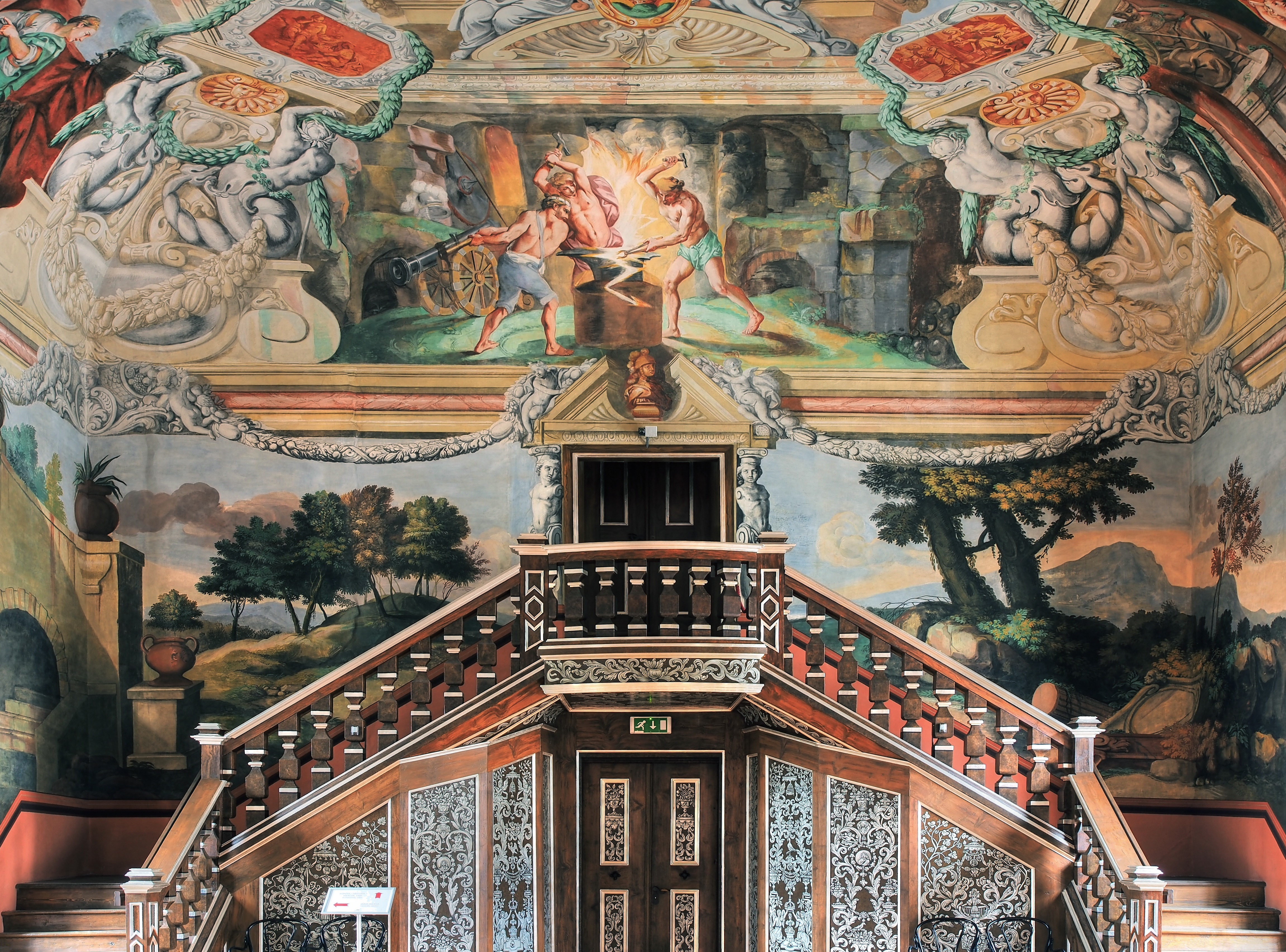 Hall of Knights north wall (Brežice Castle), Brežice, Slovenia. This photograph was taken with an Olympus E-P5